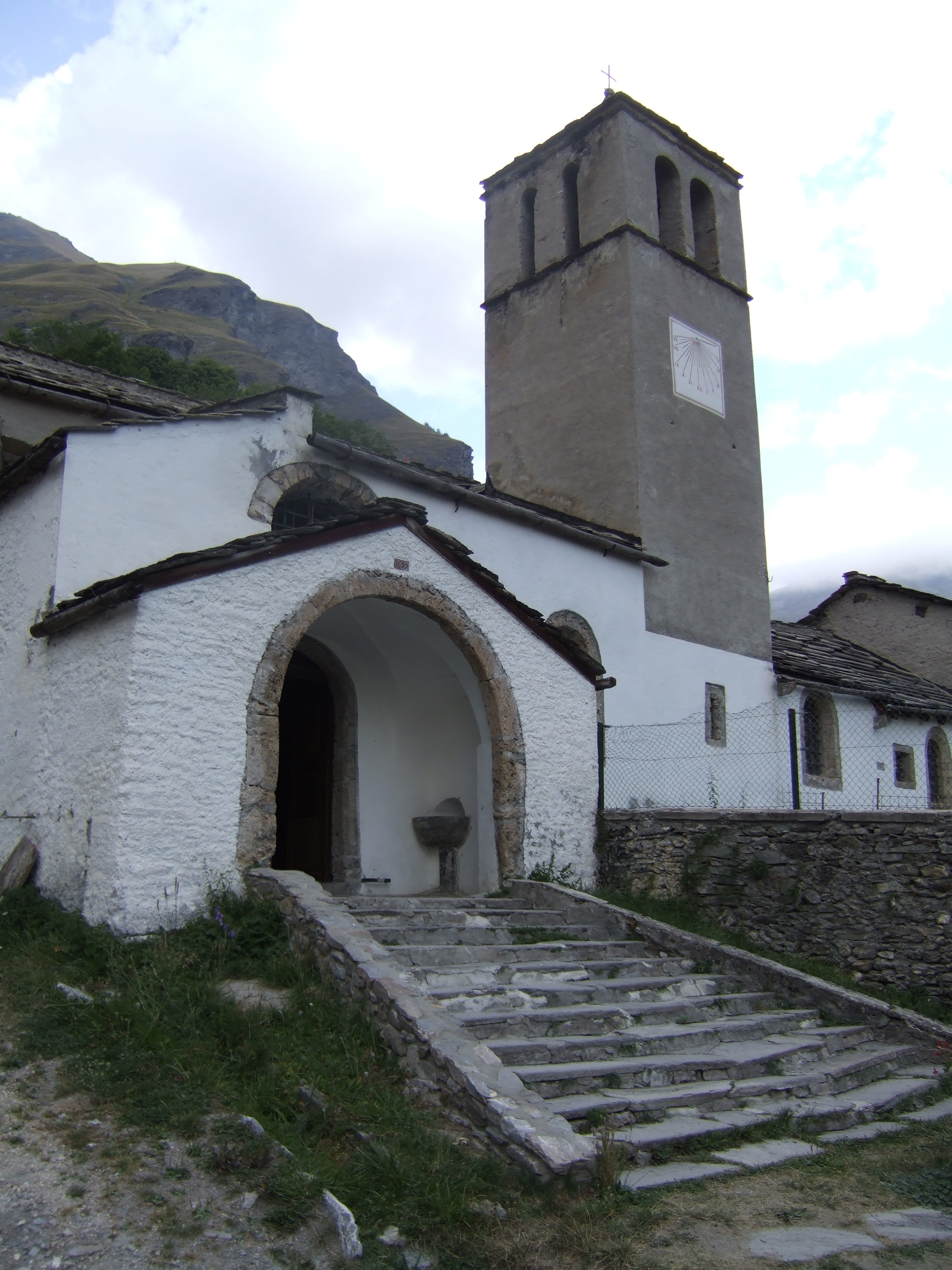 Church of Rochemolles (Bardonecchia - Italy)